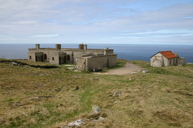 Former Lloyd's signal station, Cape Wrath The station opened in the 1930s. All passing shipping was required to signal information to the station about cargo, port of departure and estimated time of arrival at next port. It is now in a derelict condition.